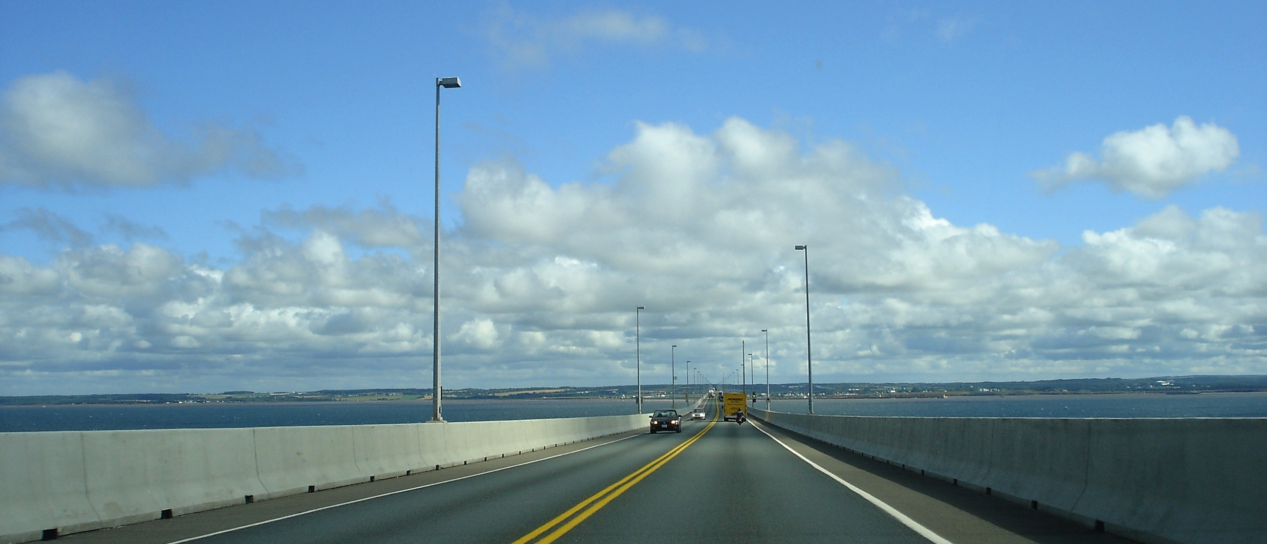 Confederation Bridge northbound to Prince Edward Island, Canada